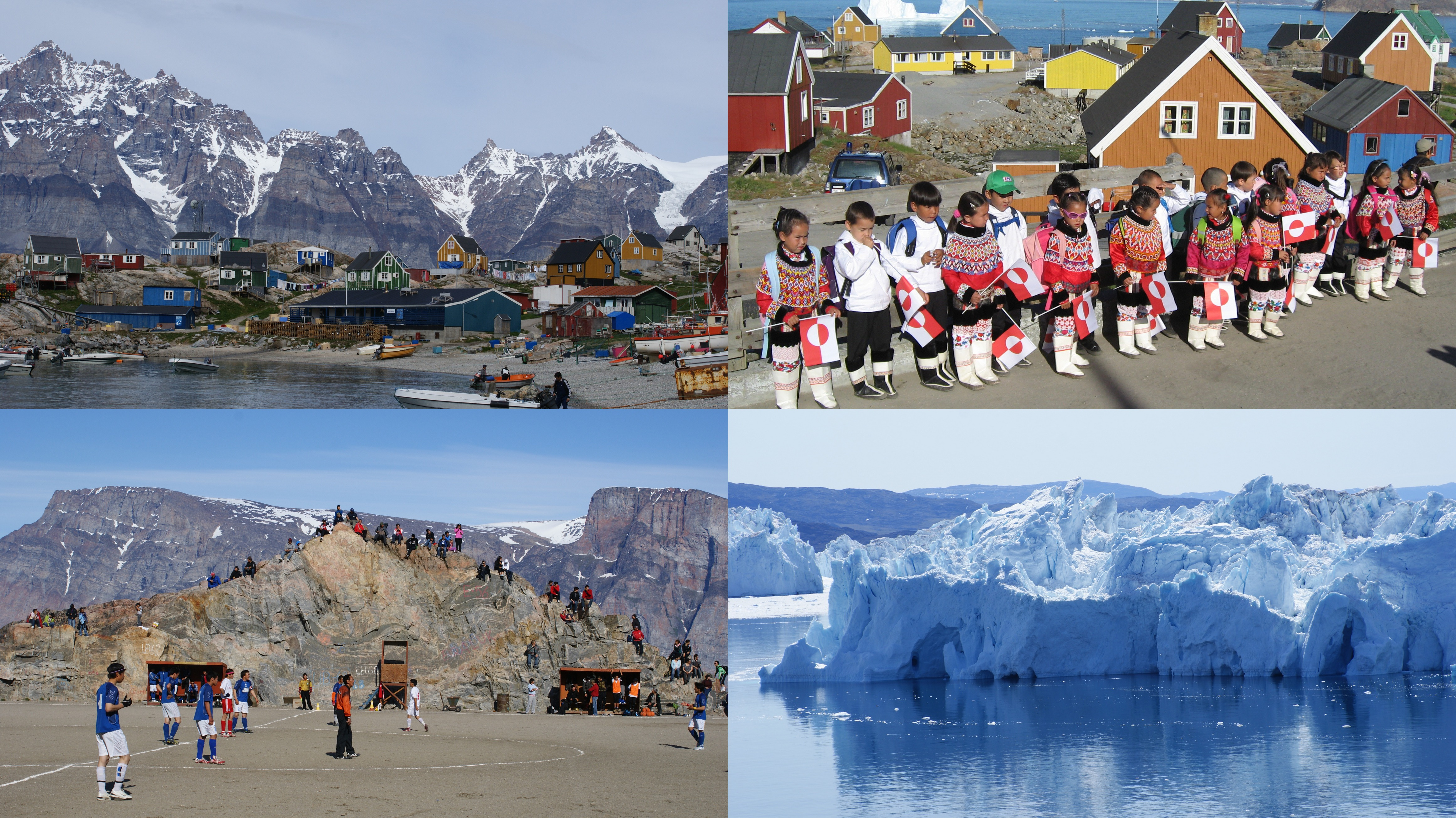 Montage of photographs from the Qaasuitsup Municipality, Greenland. top left: Ukkusissat top right: First day at school in Upernavik bottom left: Football match in Uummannaq bottom right: Ilulissat Icefjord